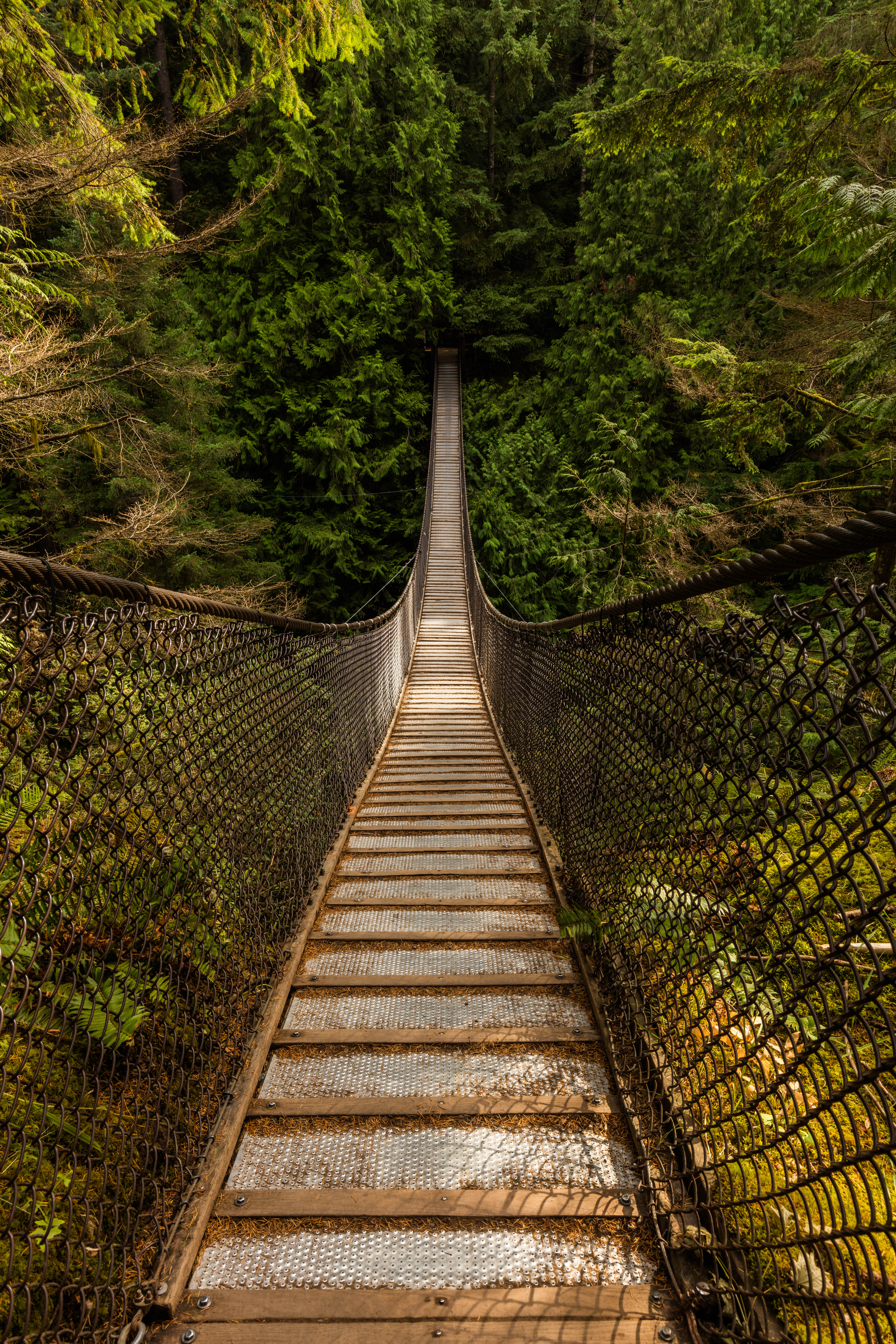 Lynn Canyon Suspension Bridge, Lynn Canyon Park, Vancouver, Canada. The bridge, built in 1912, is 50 metres (160 ft) high from the bottom of the canyon.